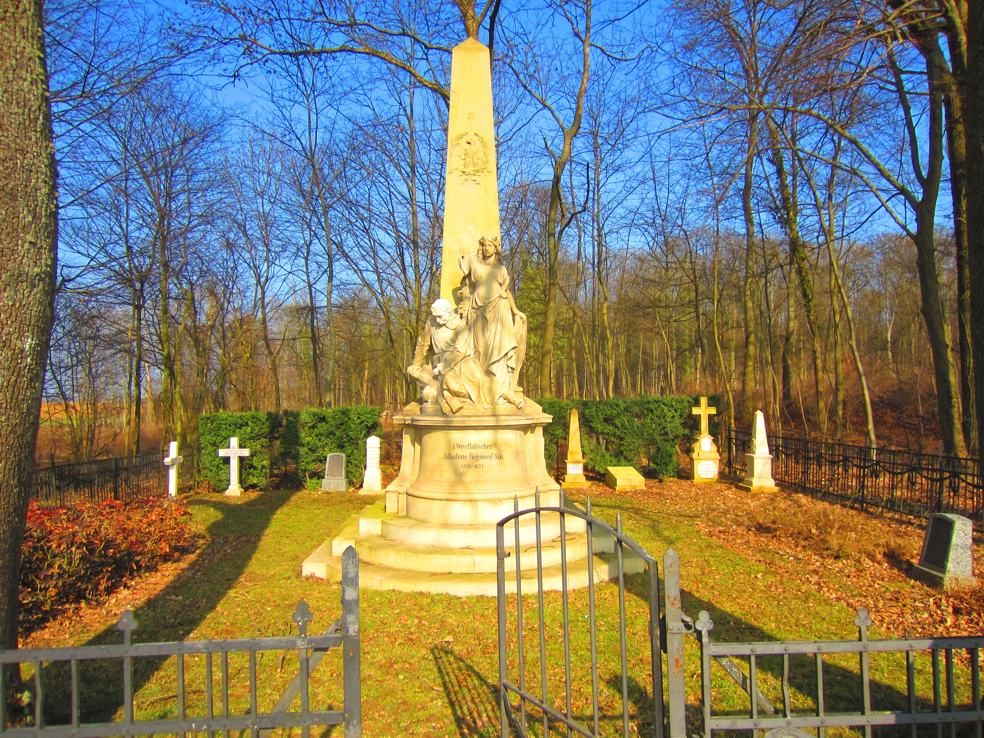 Coincy (France - Moselle department) — Colombey military cemetery and monument. See Battle of Borny-Colombey